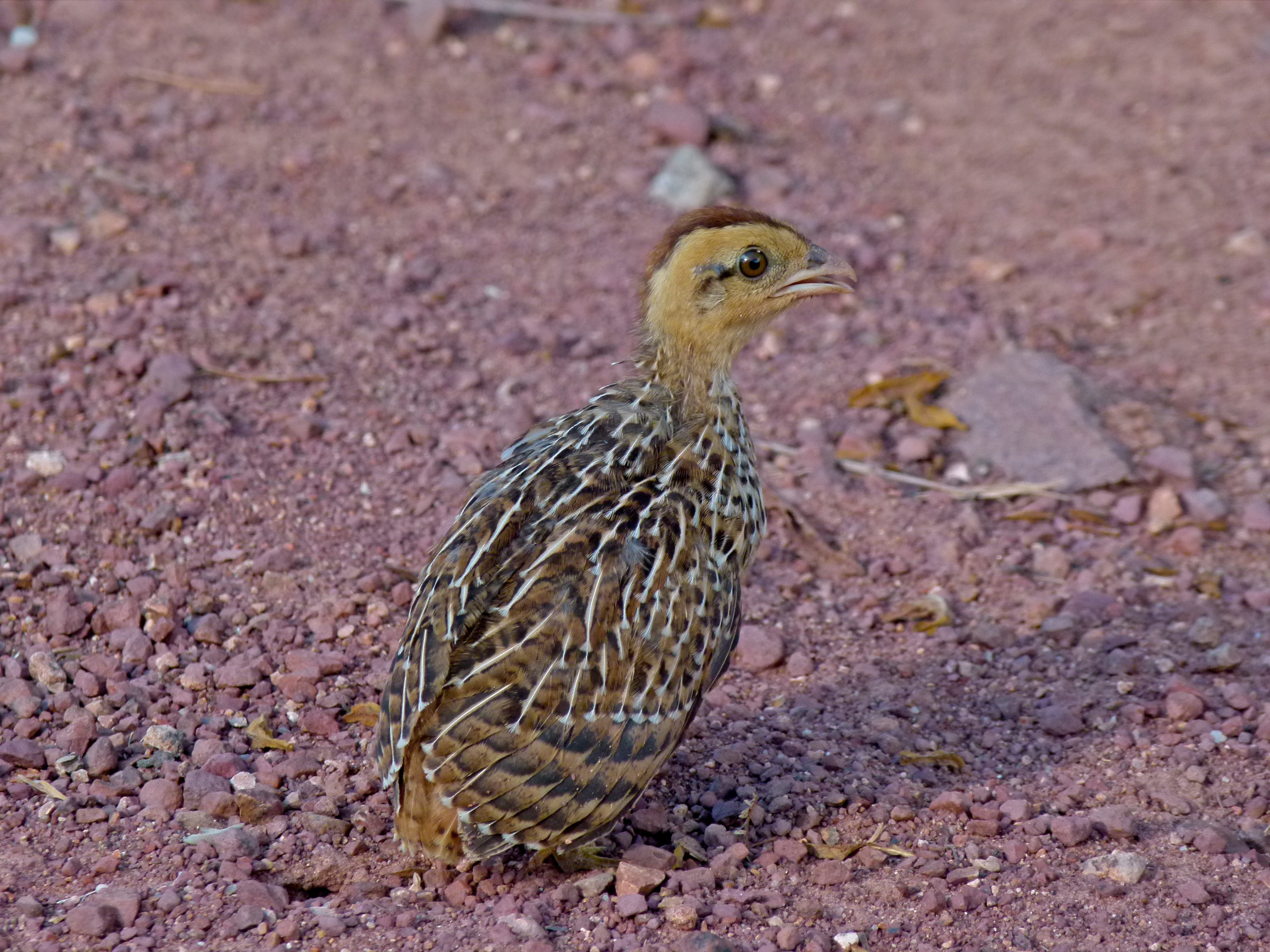 A Coqui francolin chick in Marakele NP, Limpopo, SOUTH AFRICA